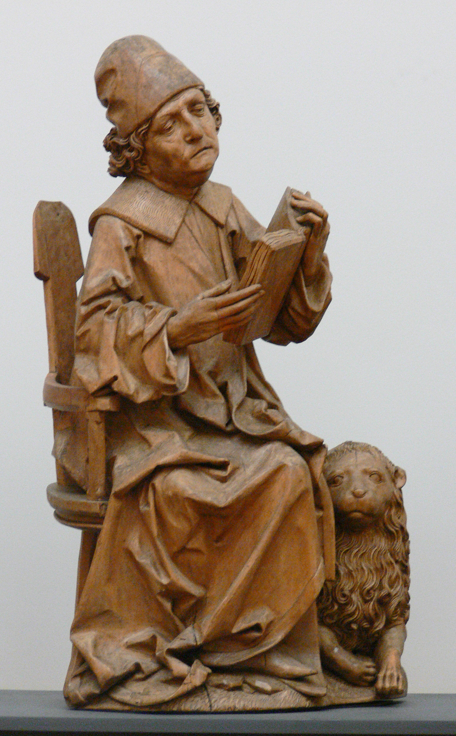 Tilman Riemenschneider: Mark the Evangelist, 1490–1492, limewood; part of a group of four evangelists, from the pedestal of the high altar of St. Magdalen Church, Münnerstadt. Skulpturensammlung (group: inv. nos. 402-405, acquired in 1887), Bode-Museum Berlin.